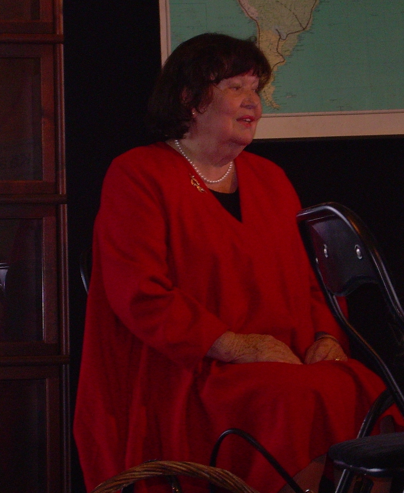 Finnish playwright Inkeri Kilpinen at the Turku International Book Fair.